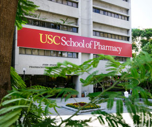 USC School of Pharmacy